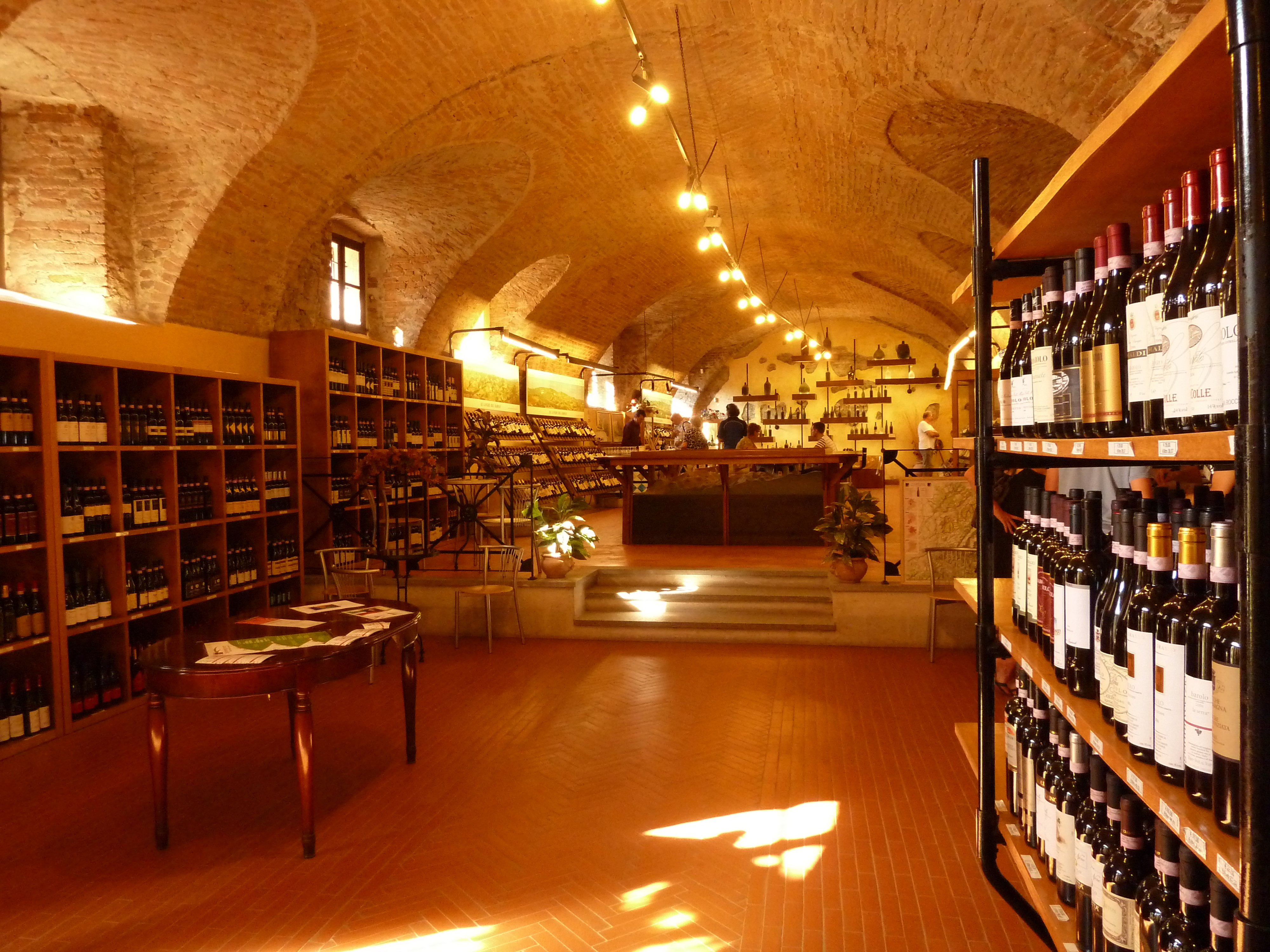 Regional wine shop of Barolo